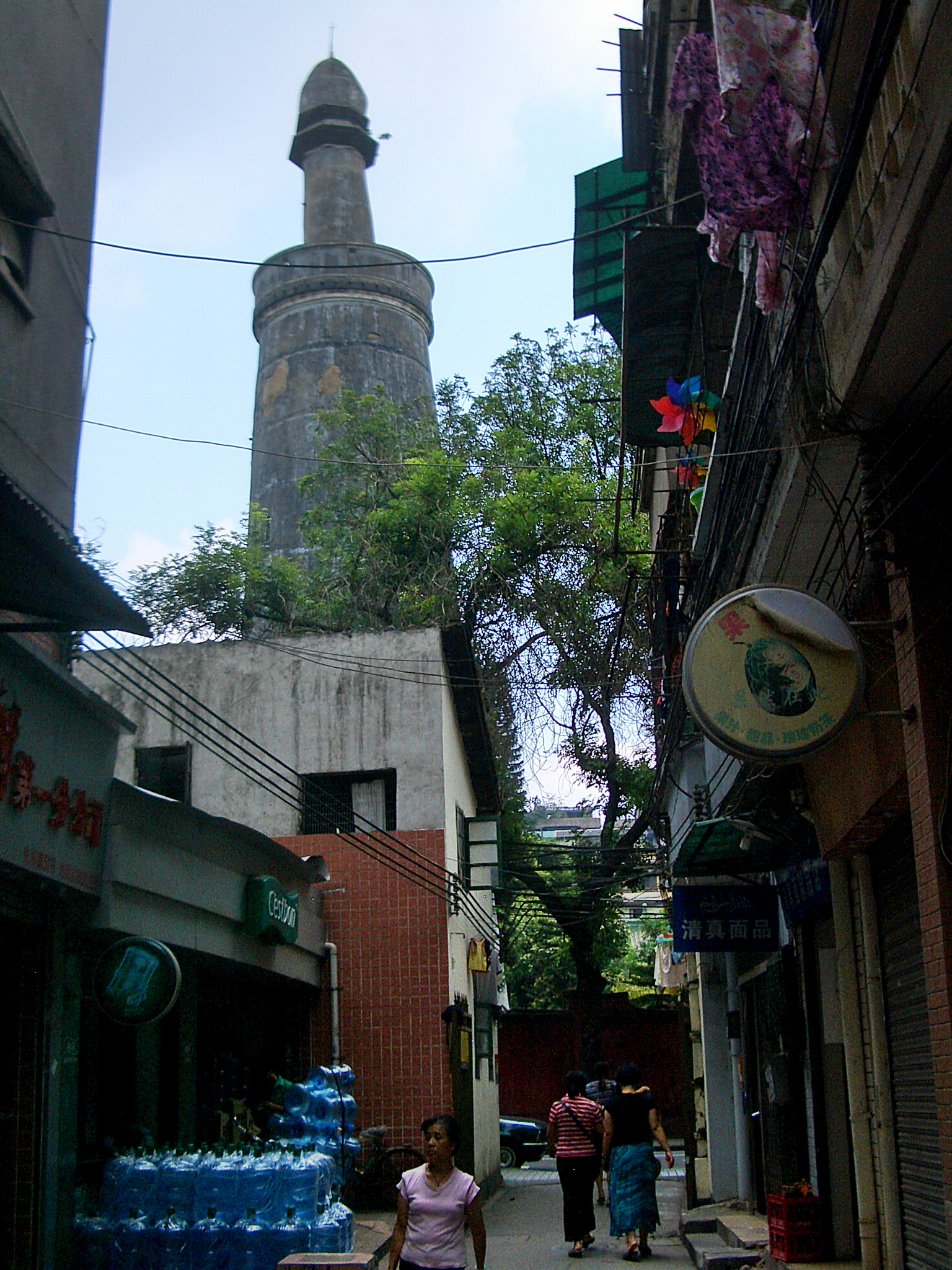 Huaisheng Mosque in Guangzhou